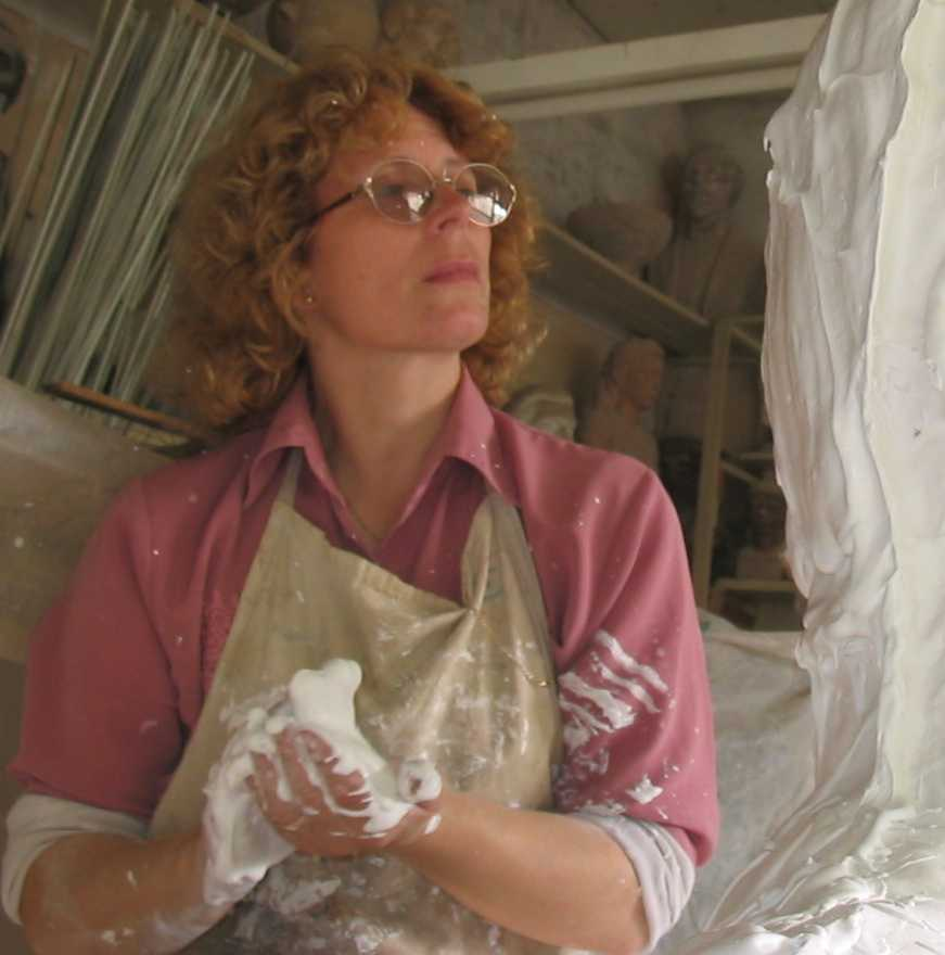 The sculpture Eichhorn working in his workshop.